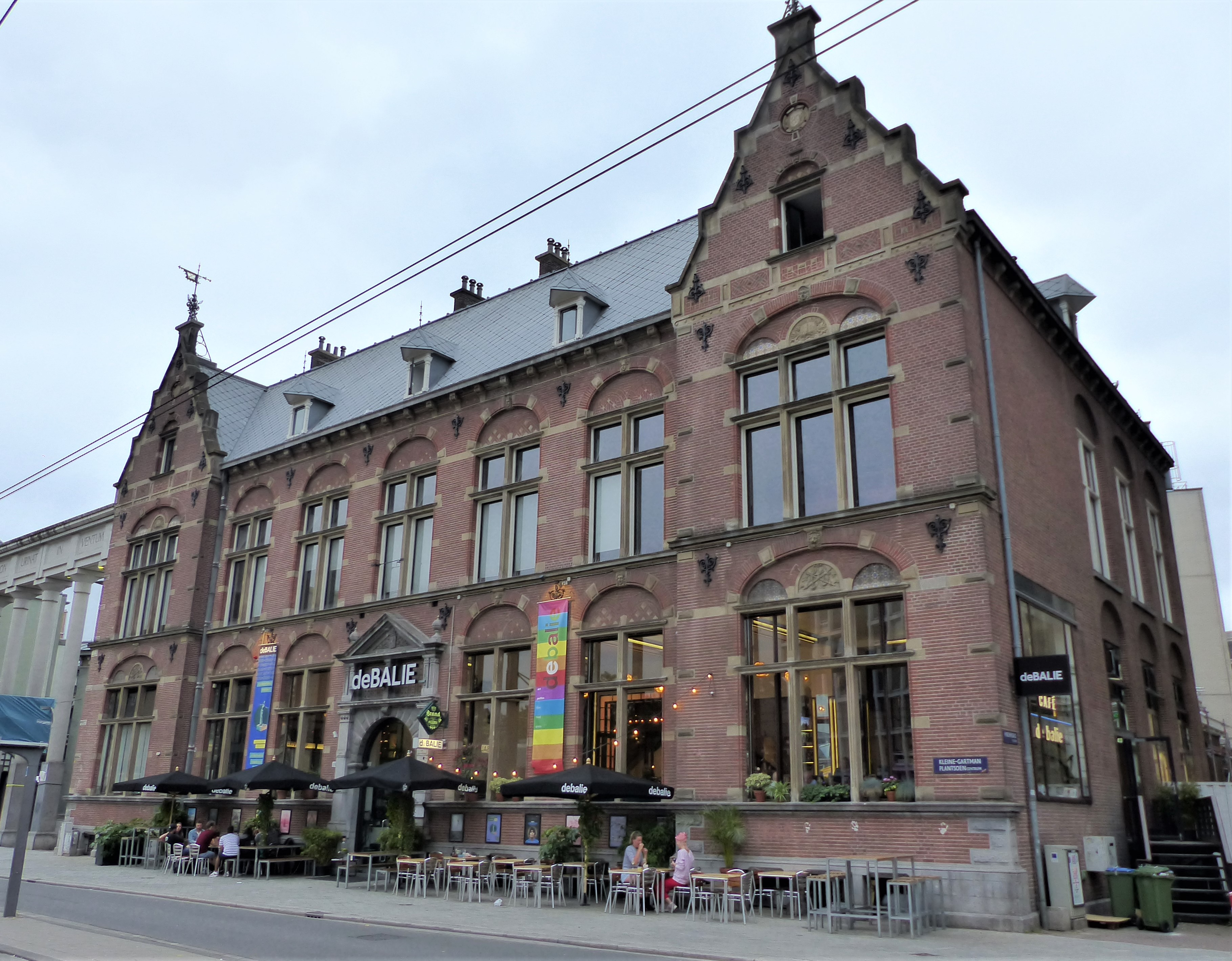 De Balie. Amsterdam, the Netherlands. Taken on the 28th of July, 2019.